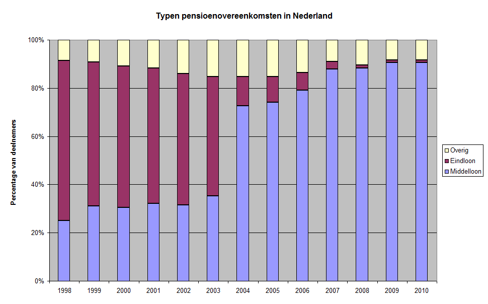 Types of pension plans in the Netherlands: showing strong rise of "middelloonsysteem" (within a defined benefits system, the benefits are calculated using the average wages over the period of participation in a pension scheme). Source: website DNB (central bank of the Netherlands, regulator of the pension sector), table T 8.11.